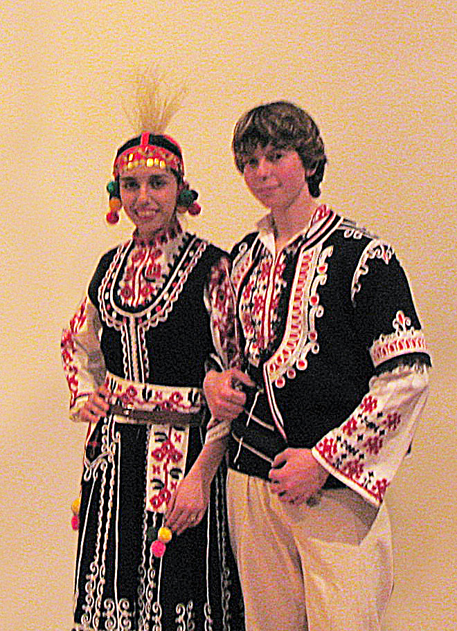 Bulgarian traditional clothing